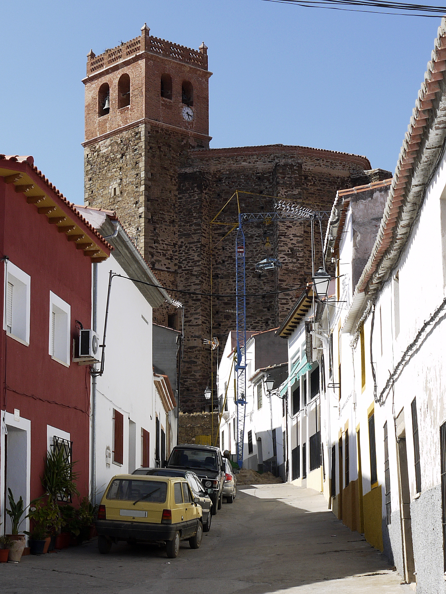 Iglesia Parroquial Ntra Sra de la Asunción, Jaraicejo, Prov. de Cáceres, Spain.